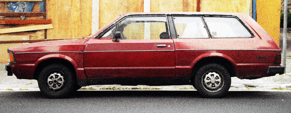 Ford Belina, a station wagon based on the Corcel II